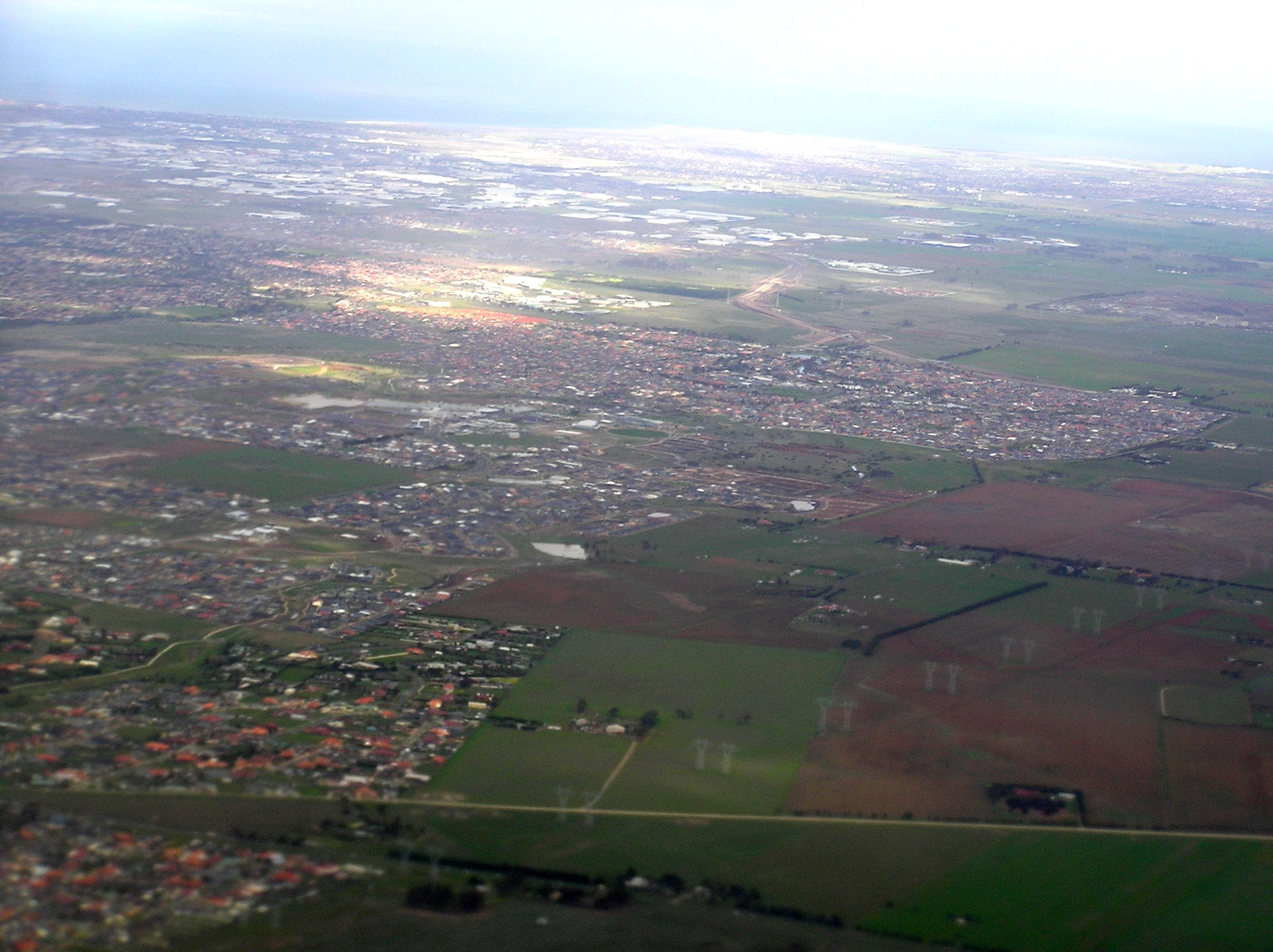 Aerial photo of the whole of Caroline Springs Victoria Australia from north. Lake Caroline is visible